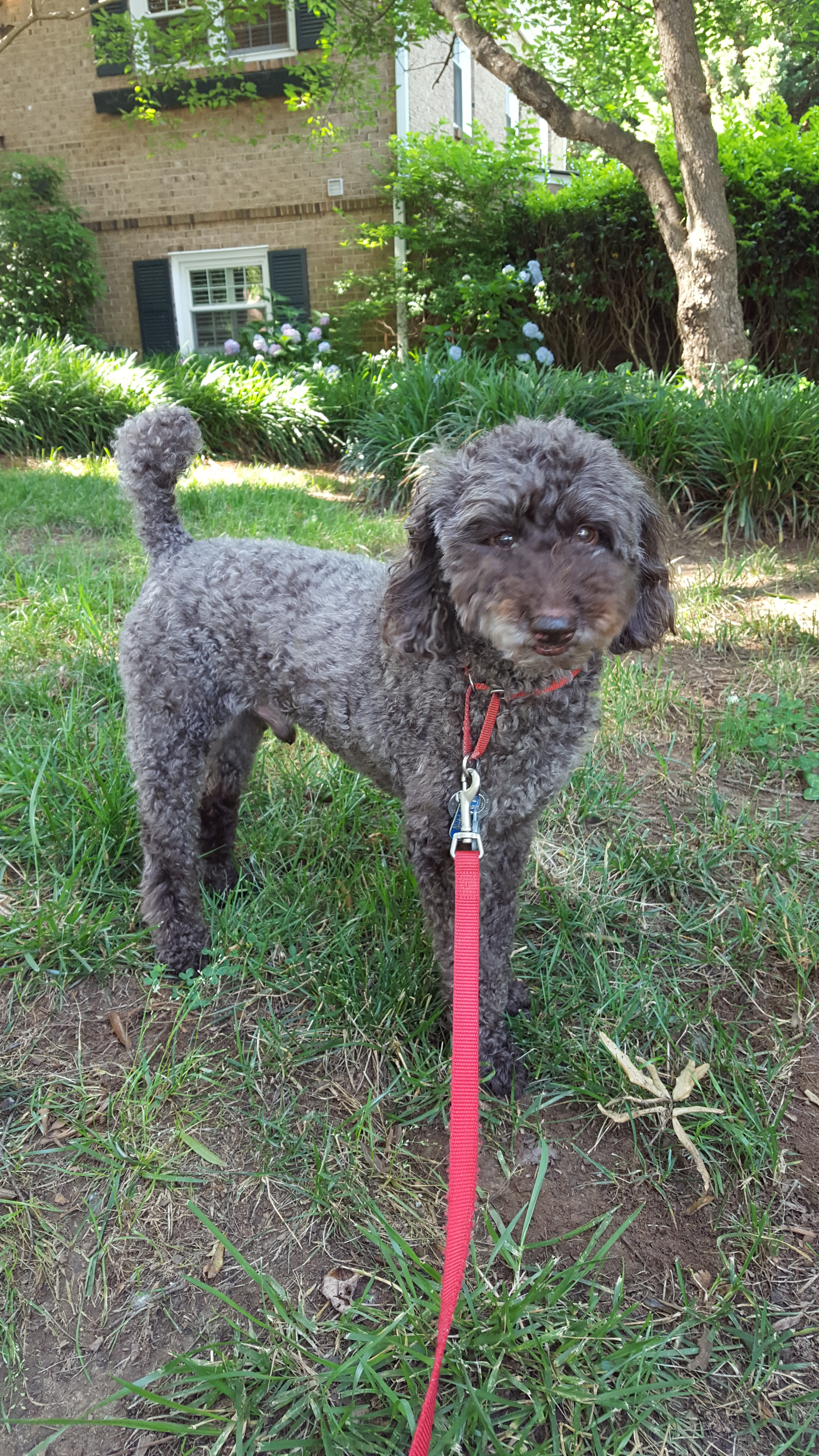 Poodle tails are often docked for cosmetic reasons.